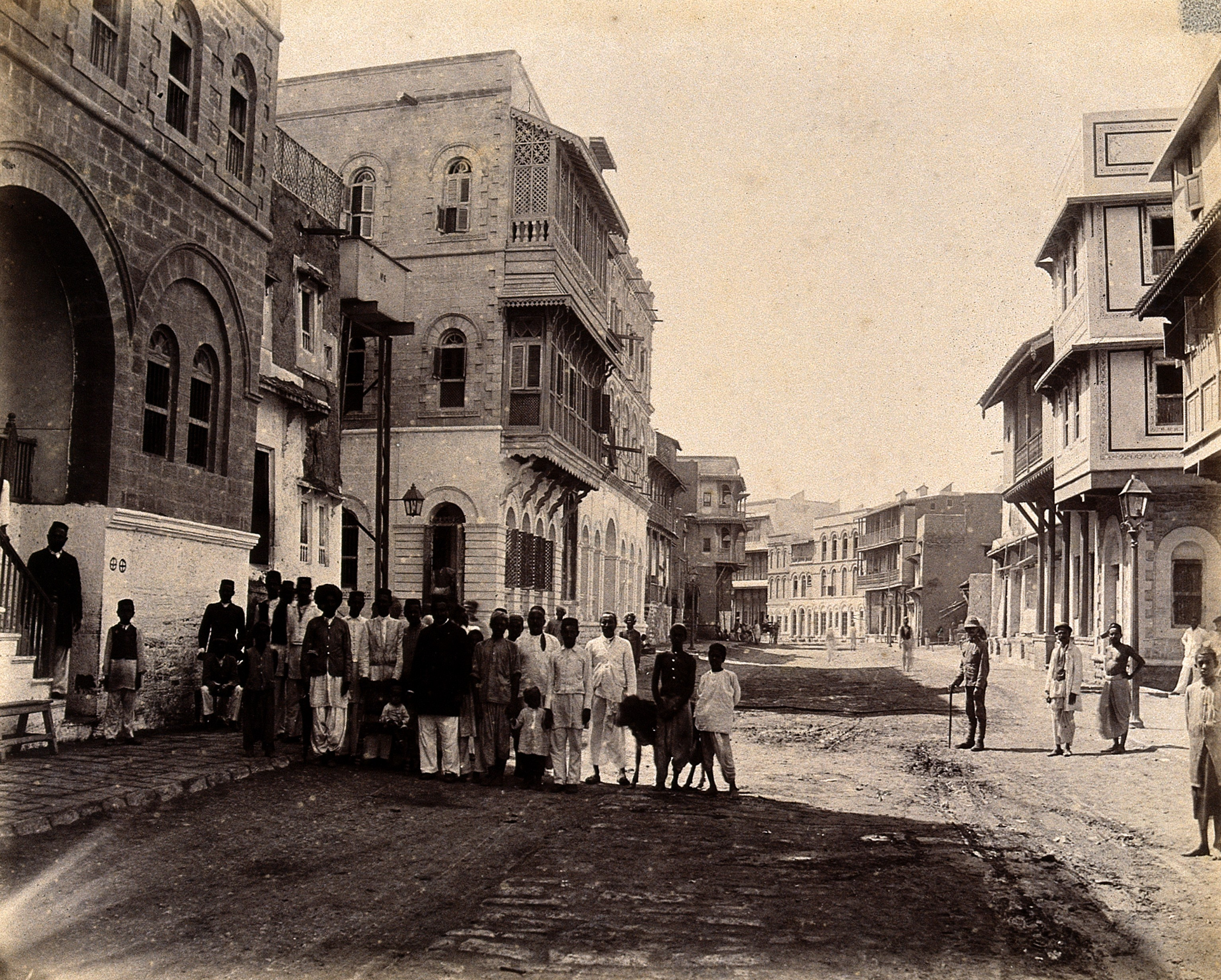 A street in Old Town, Karachi, India. Photograph, 1897. Rampart Row - Old Town. Site of 1st cases in Karachi Photograph probably by Jalbhoy, R. The lettering is printed on the mount Karachi is a port in the province of Sind (now [1996] Pakistan). It was placed in quarantine in 1882, during the outbreak of bubonic plague which spread from Bombay. The Plague Committee consisted mostly of volunteers, who were organised into parties and were responsible for the segregation and inoculation of various districts Contained in an album of photographs which show the work of the Karachi Plague Committee in 1897 Iconographic Collections Keywords: Karachi Plague Committee (India)